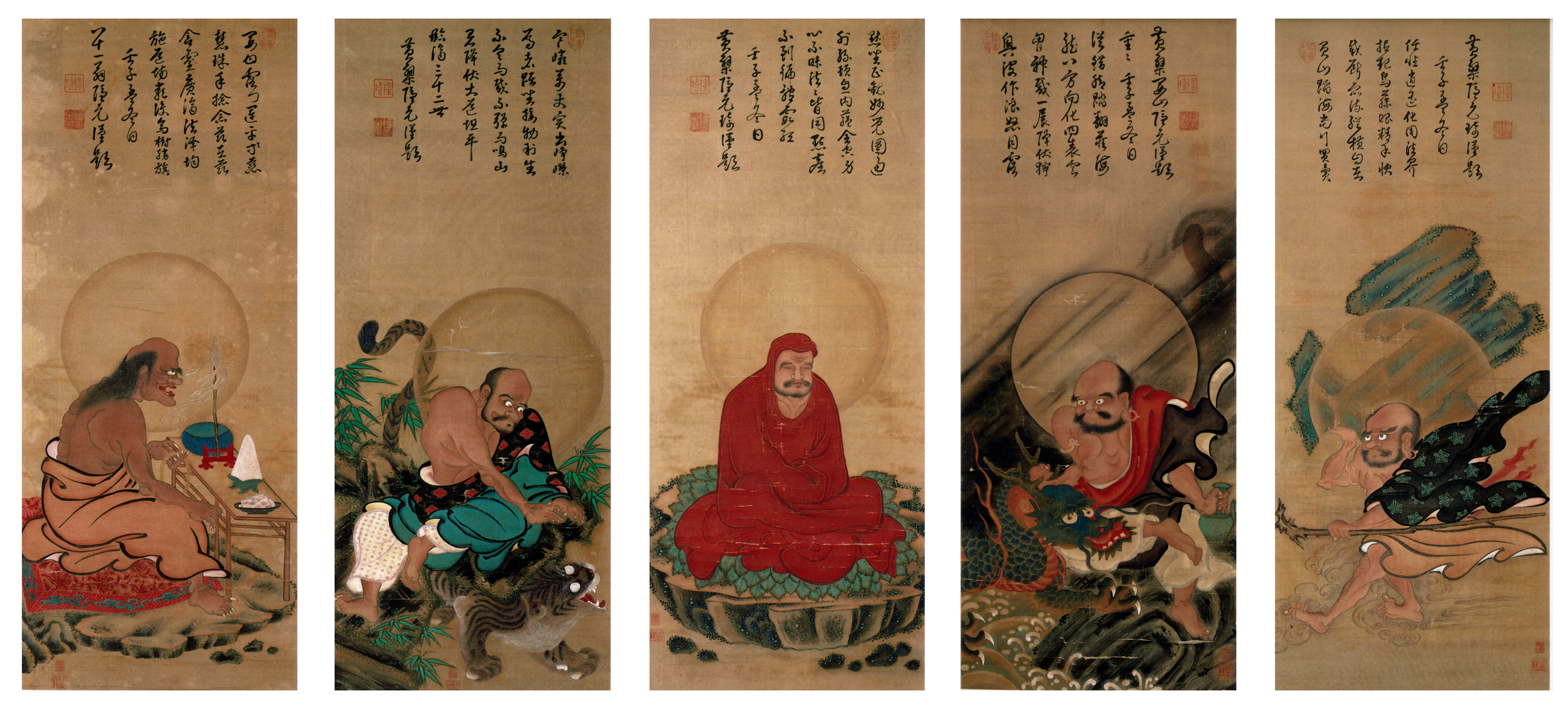 18 Arhat Kawamura Jakushi,Inscription by Yinyuan,color on silk,18 hanging scrolls,Shomyo ji Temple,Shiga_Pref